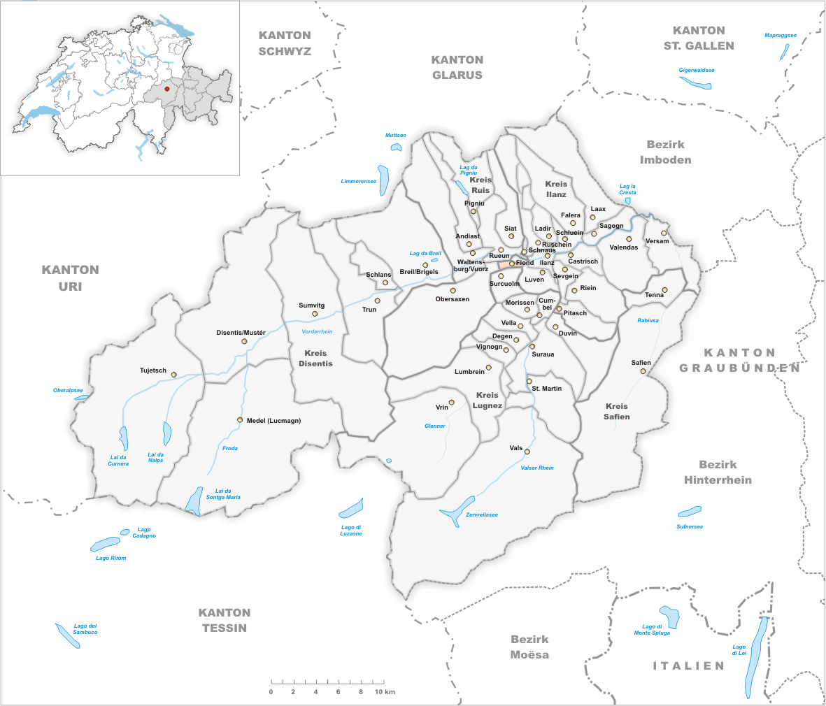 Municipality Flond